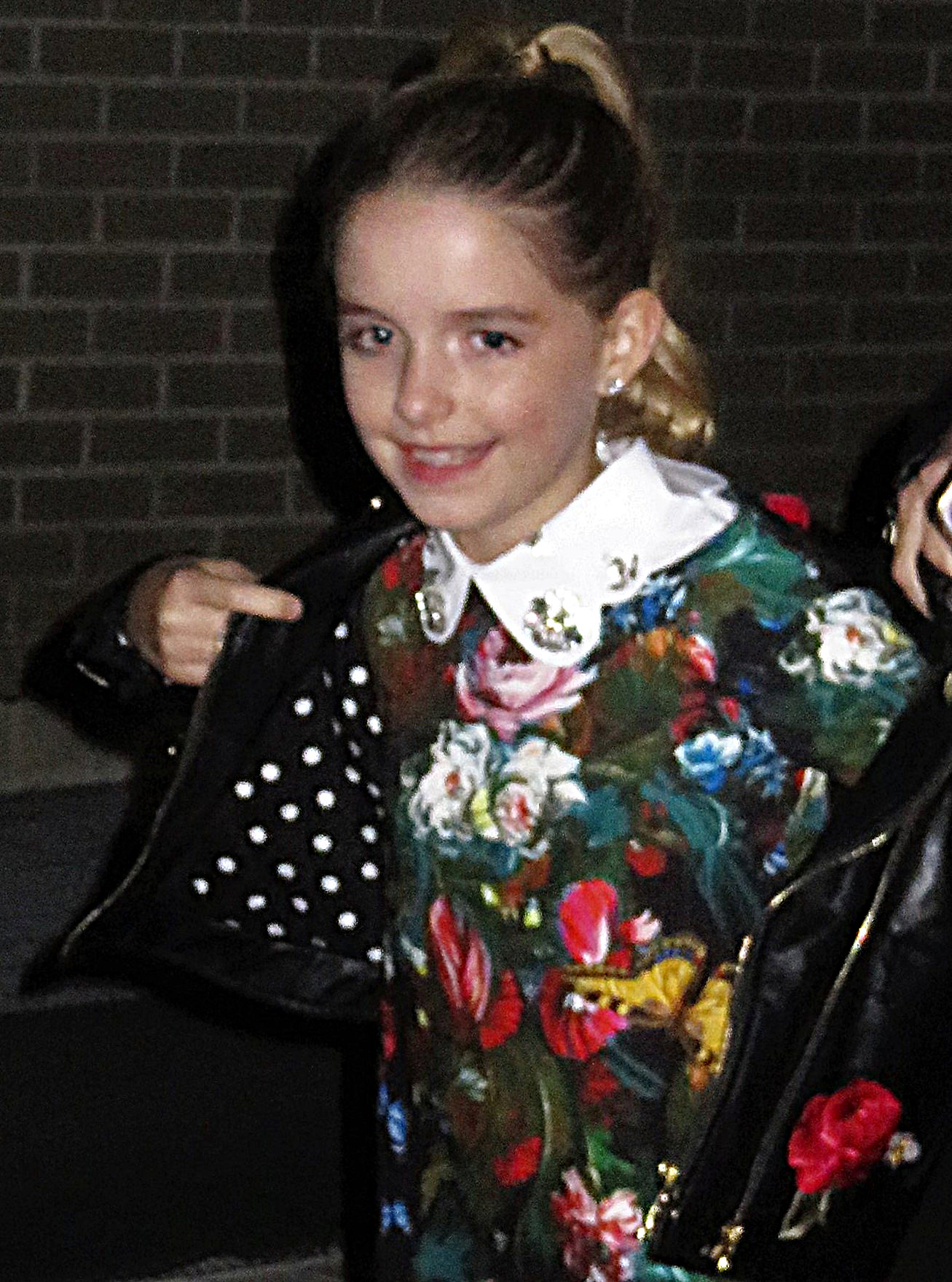 McKenna Grace at the premiere of I Tonya, 2017 Toronto Film Festival